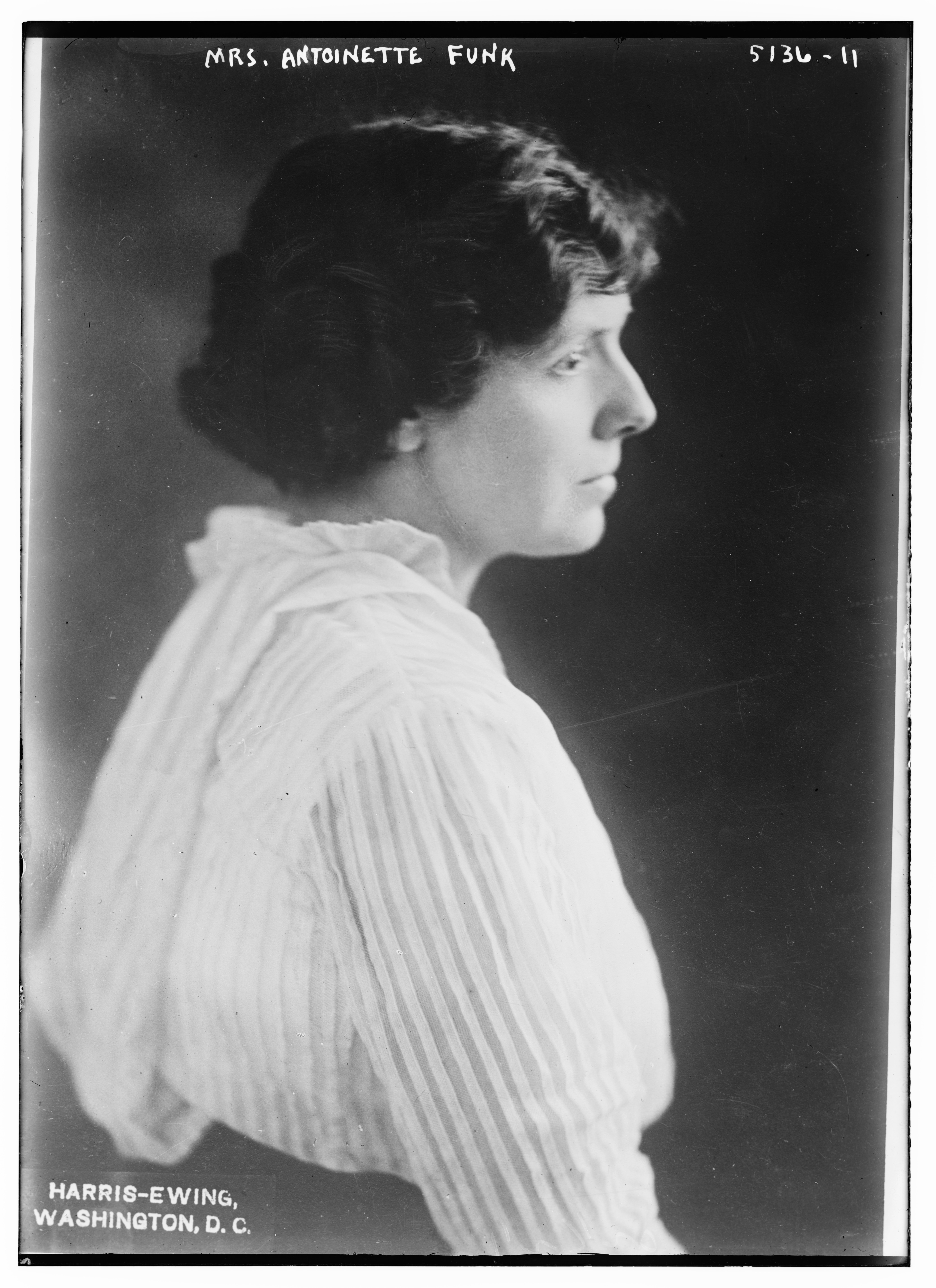 Antoinette Funk circa 1920